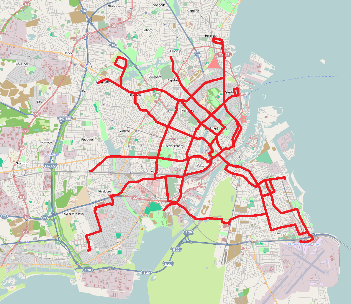 Map of Copenhagen with the planned A-bus lines as of april 2000 in red. The lines were opened in 2002-2003 with several changes.